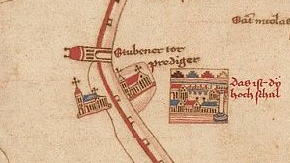 St. Wolfgangs Chapell near Stubentor (Vienna)